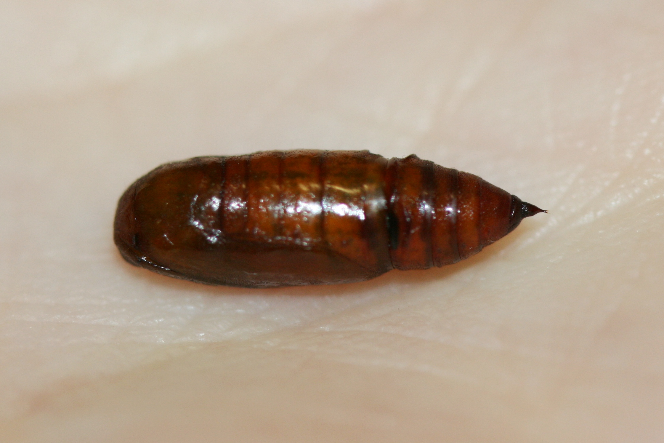 Pupa of Twig Looper (Ectropis excursaria) at Forest Hills, Victoria, Australia. Photographed on 25 May 2009.